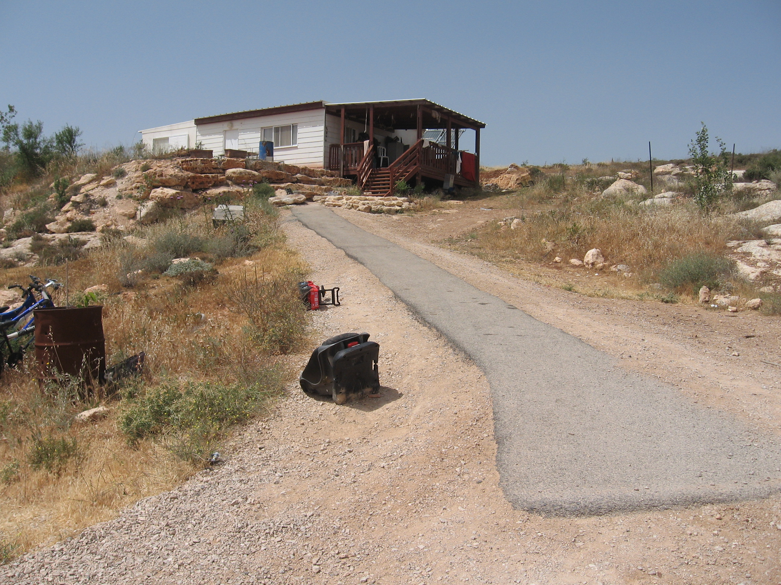 the farm a pavu yeshuv_hadaat